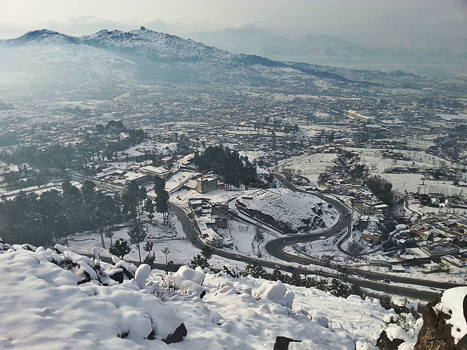 Record Break Snow falls